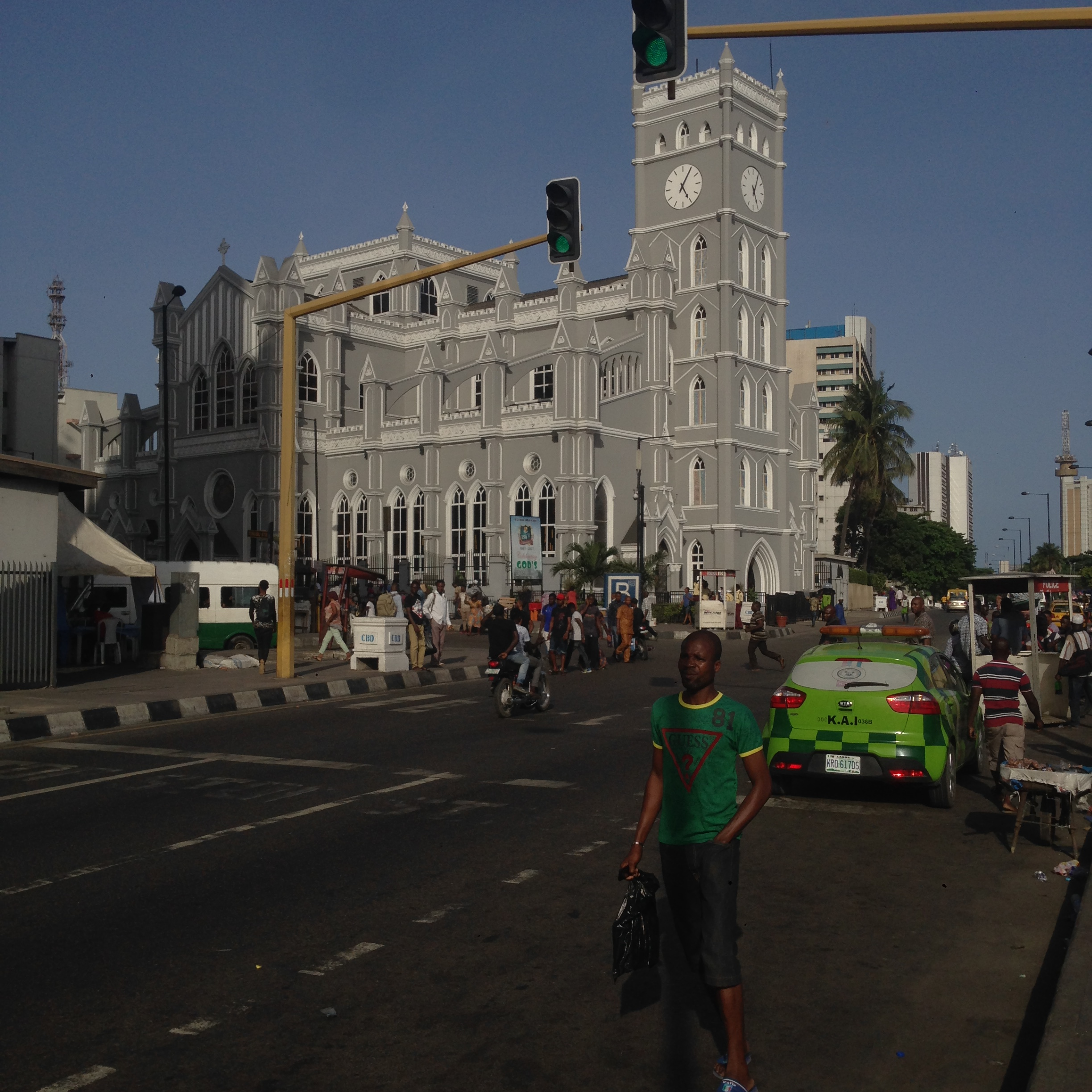 west